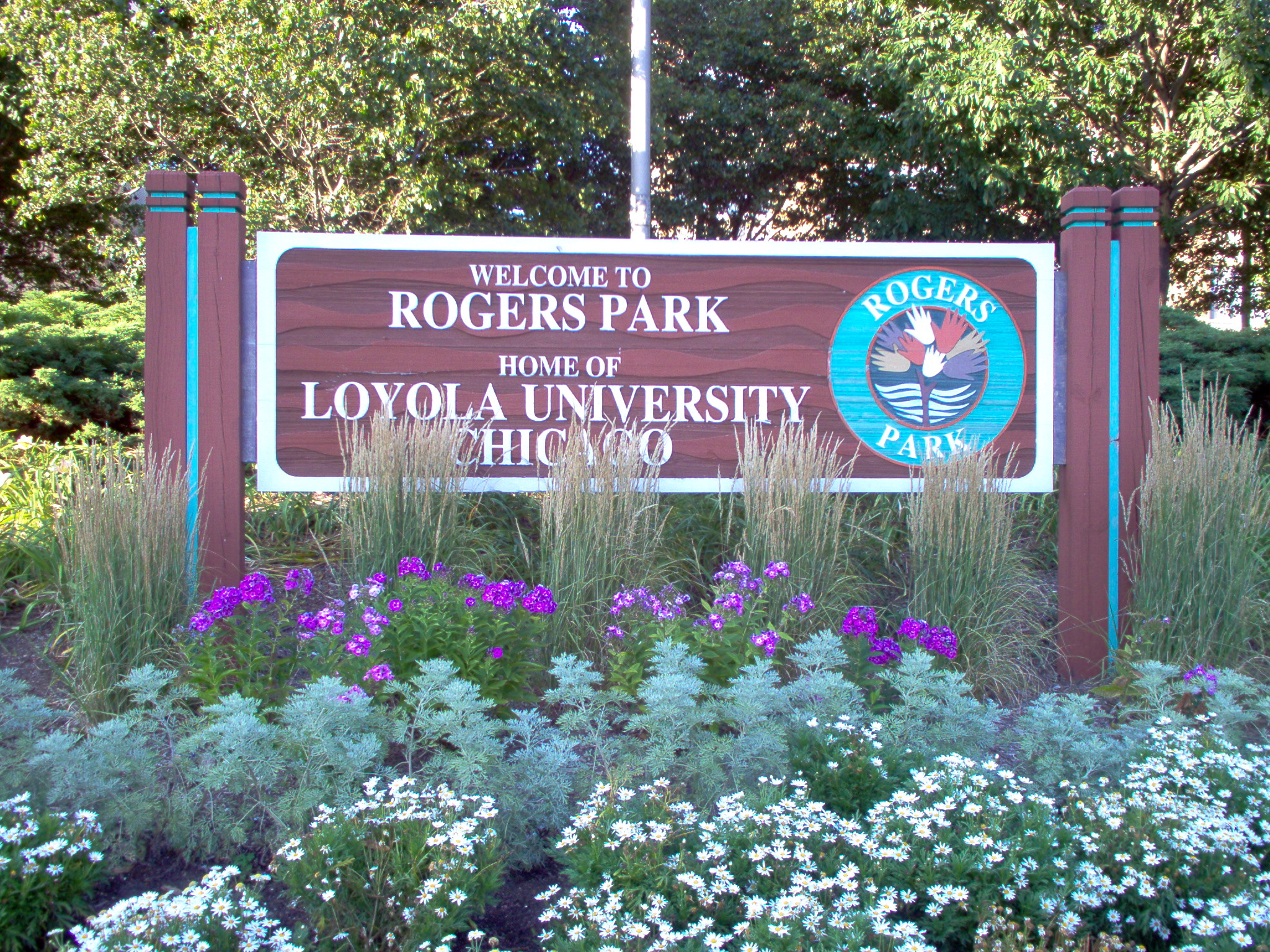 Photo by Gerald Farinas taken on July 14, 2006 of the entrance to Rogers Park, Chicago, Illinois.